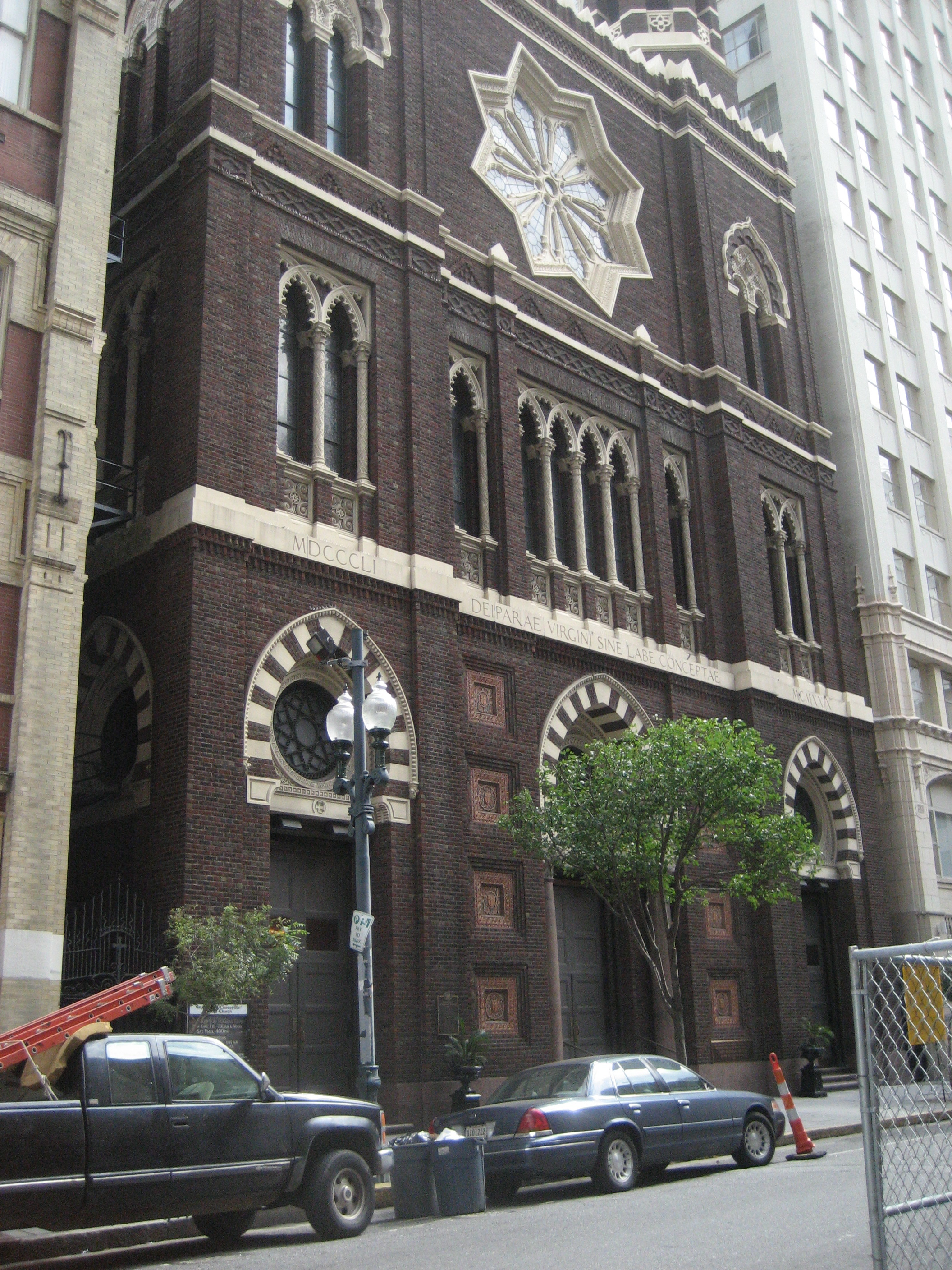 Immaculate Conception Church on Barrone Street, New Orleans Central Business District.